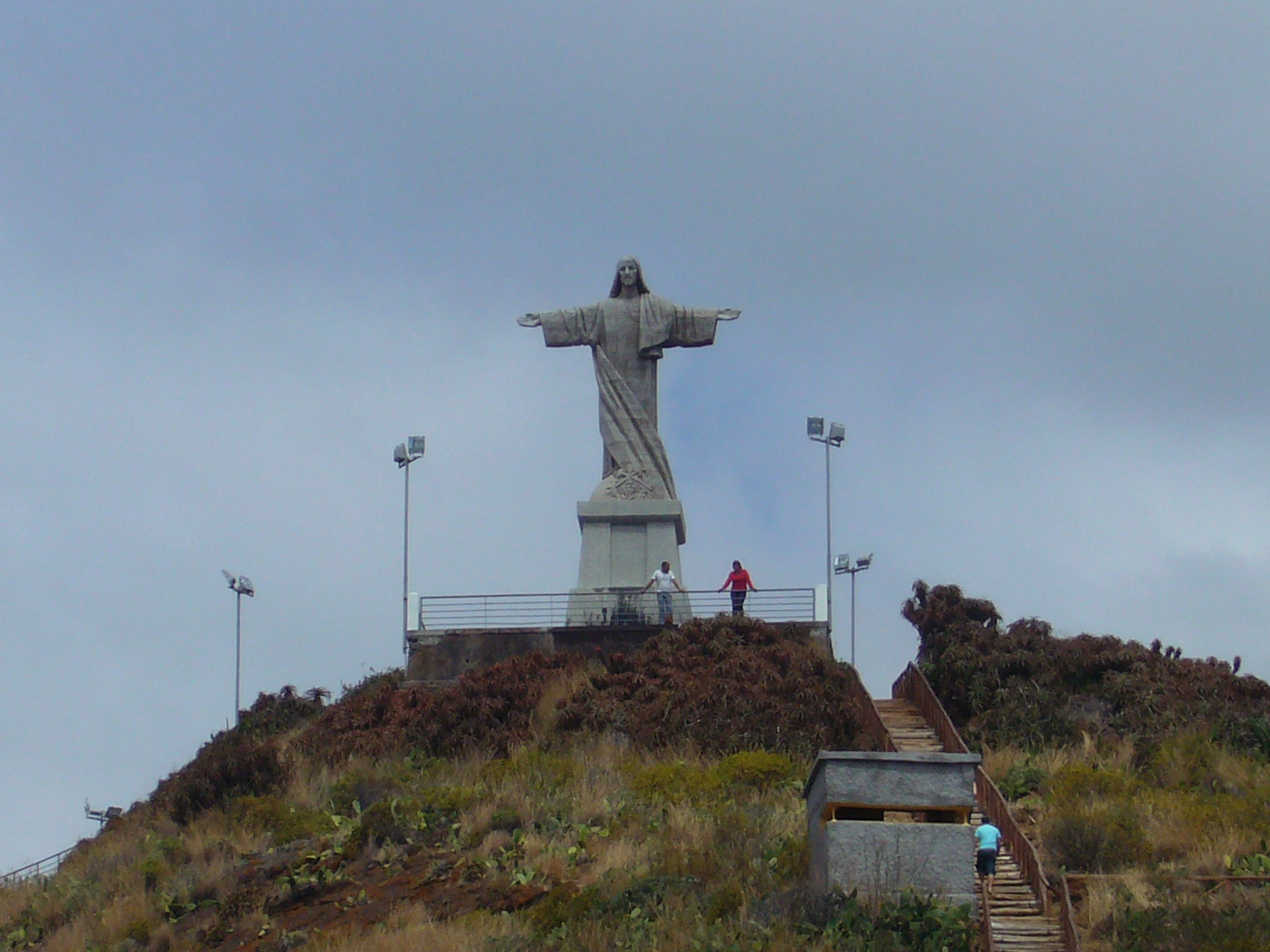 The statue "Cristo Rei" at Cape Garajau (Madeira).